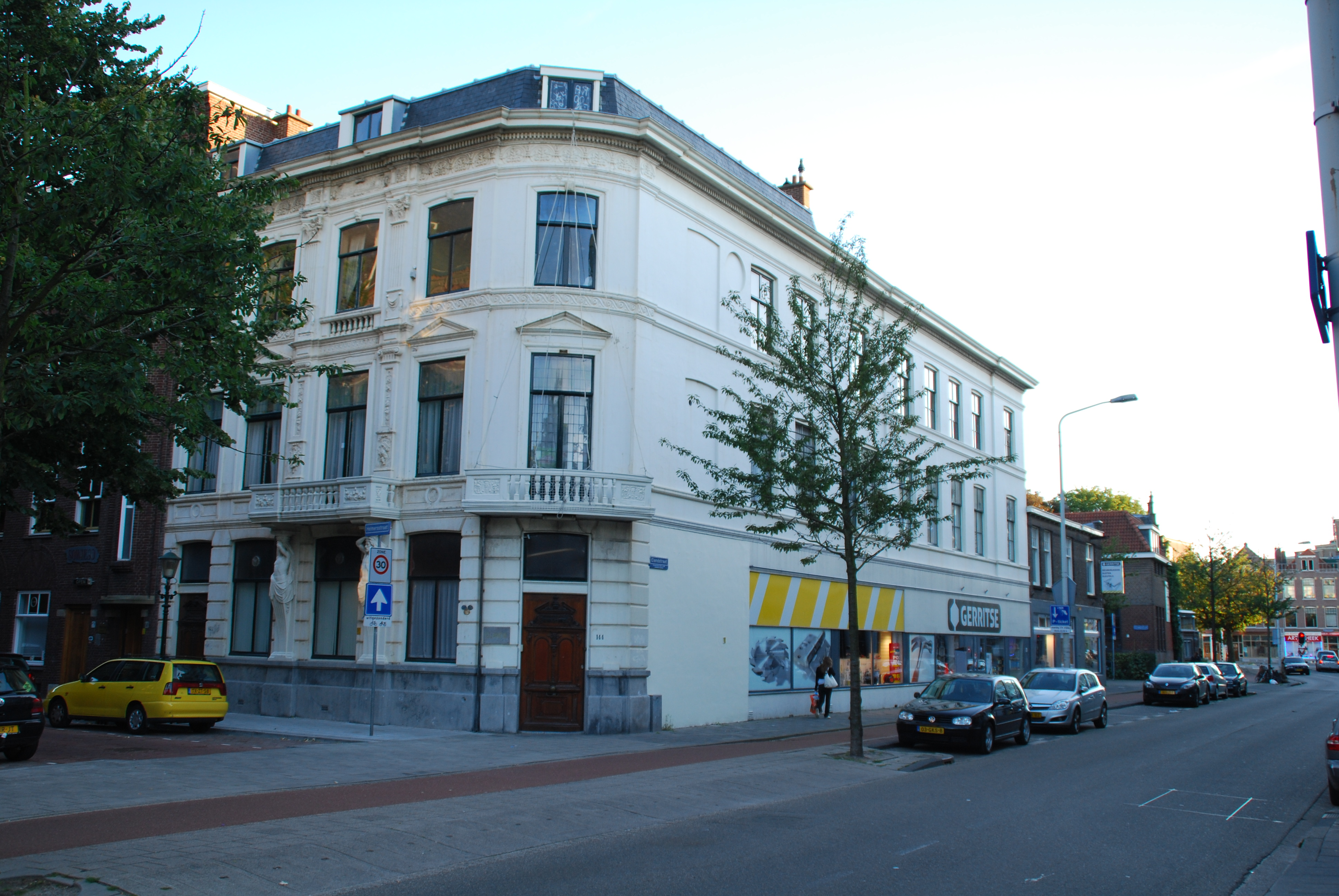 The Hague, Helmersstraat 142-144, former workshop of the sculpters Te Poel and Stoltefus